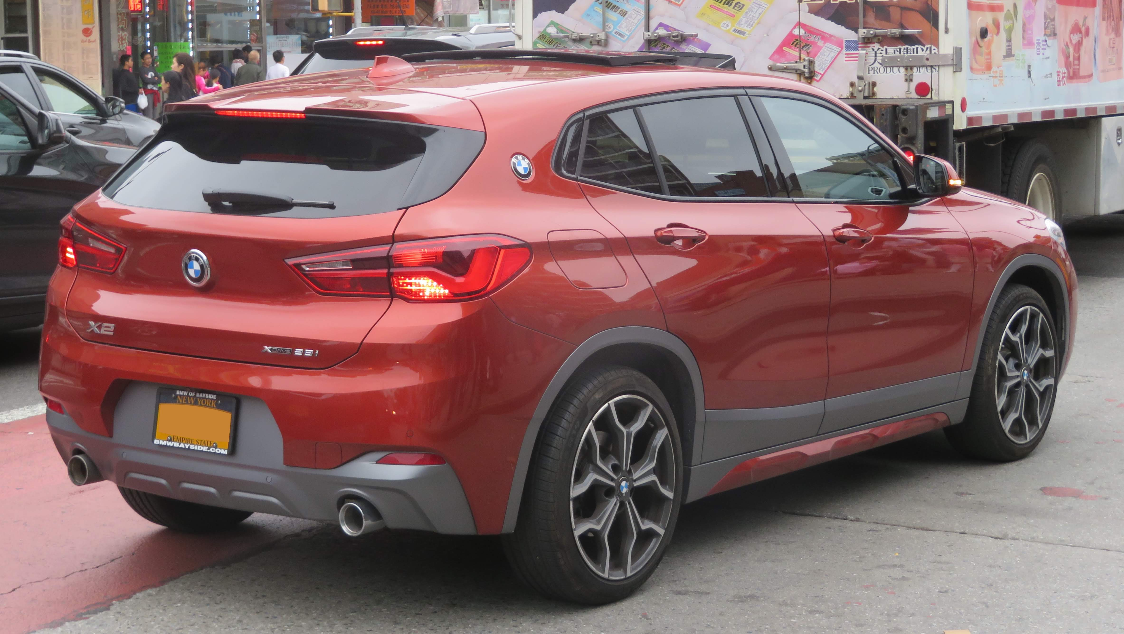 Photographed in Flushing, Queens, New York